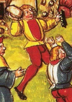 This image is a detail from a larger picture which originally came from the Luzerner Schilling: it is listed on Wikimedia as: File:Schilling mercenaries.jpg